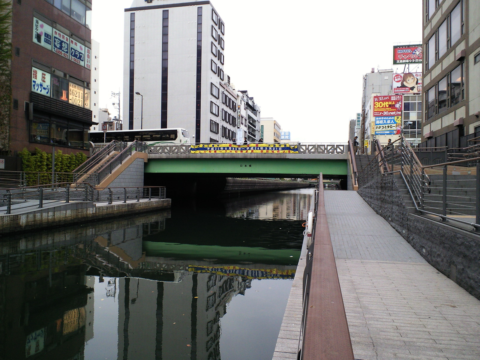 Nipponbashi (Bridge), Chuo-ku, Osaka